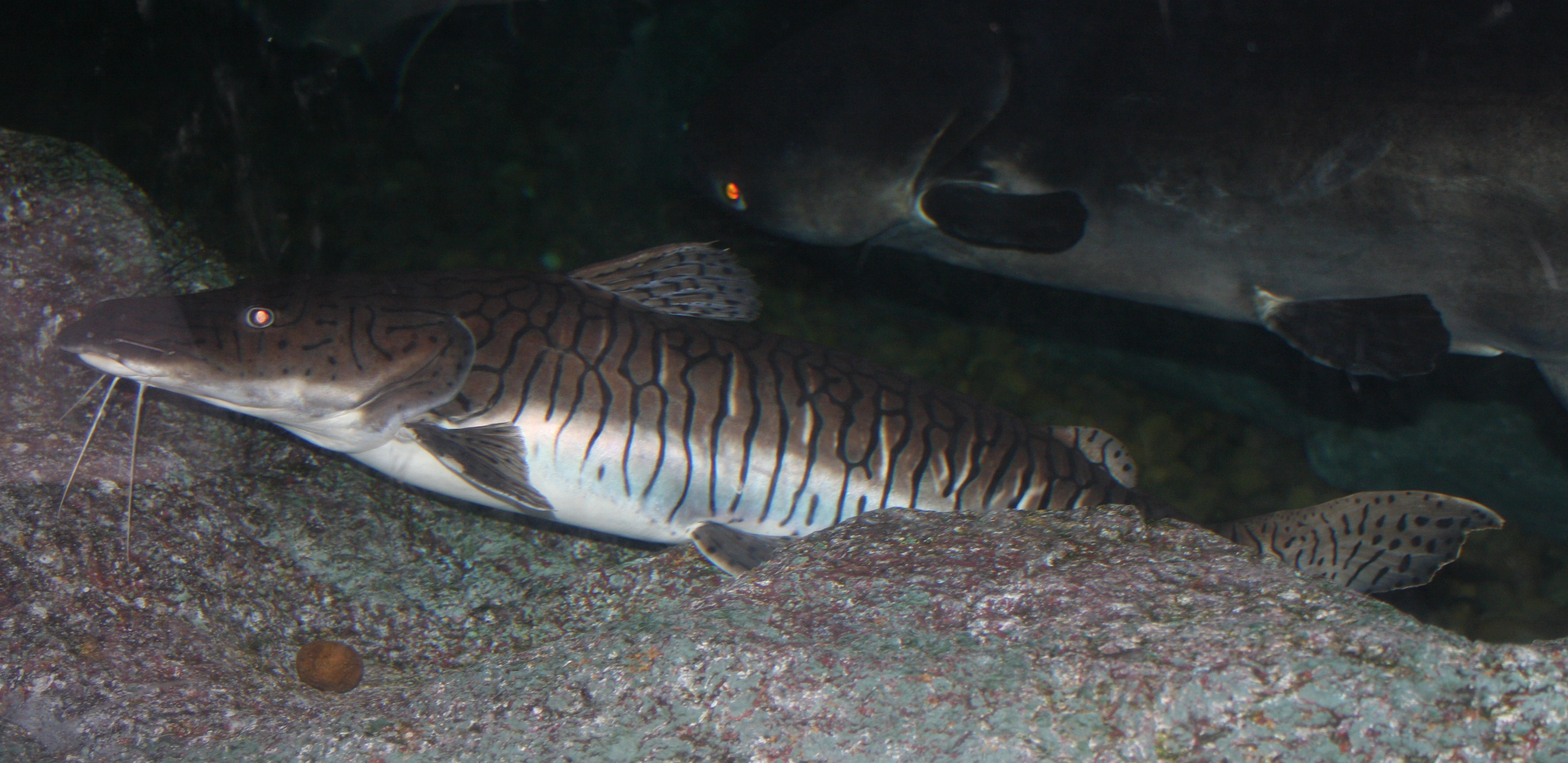 Pseudoplatystoma fasciatum, a specie of catfish, in Siam centre, Bangkok